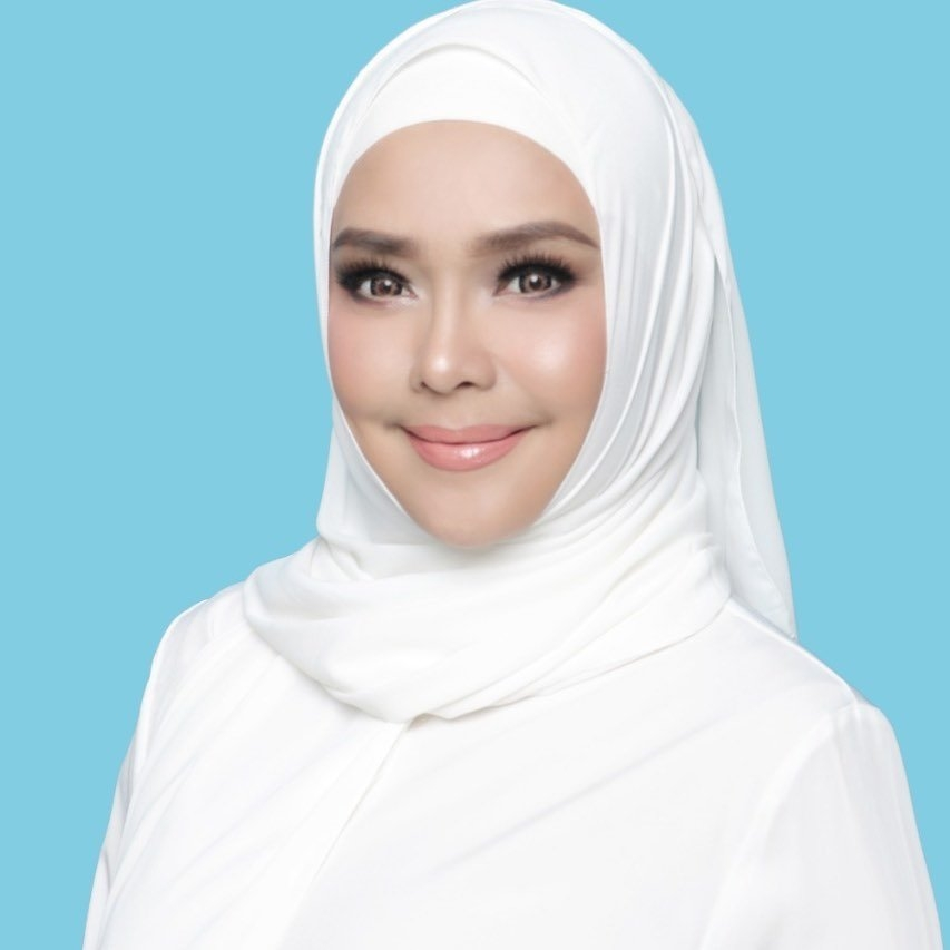 Iyeth Bustami